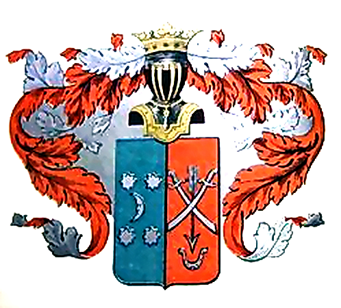 Coat of Arms of Somov family